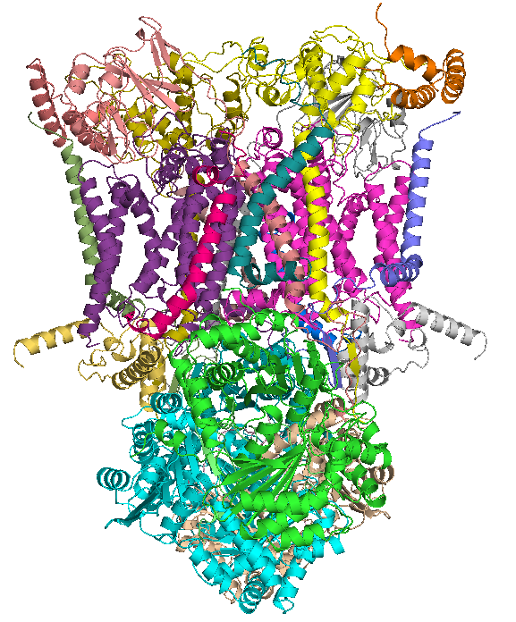 PDB 1NTZ, created using Pymol